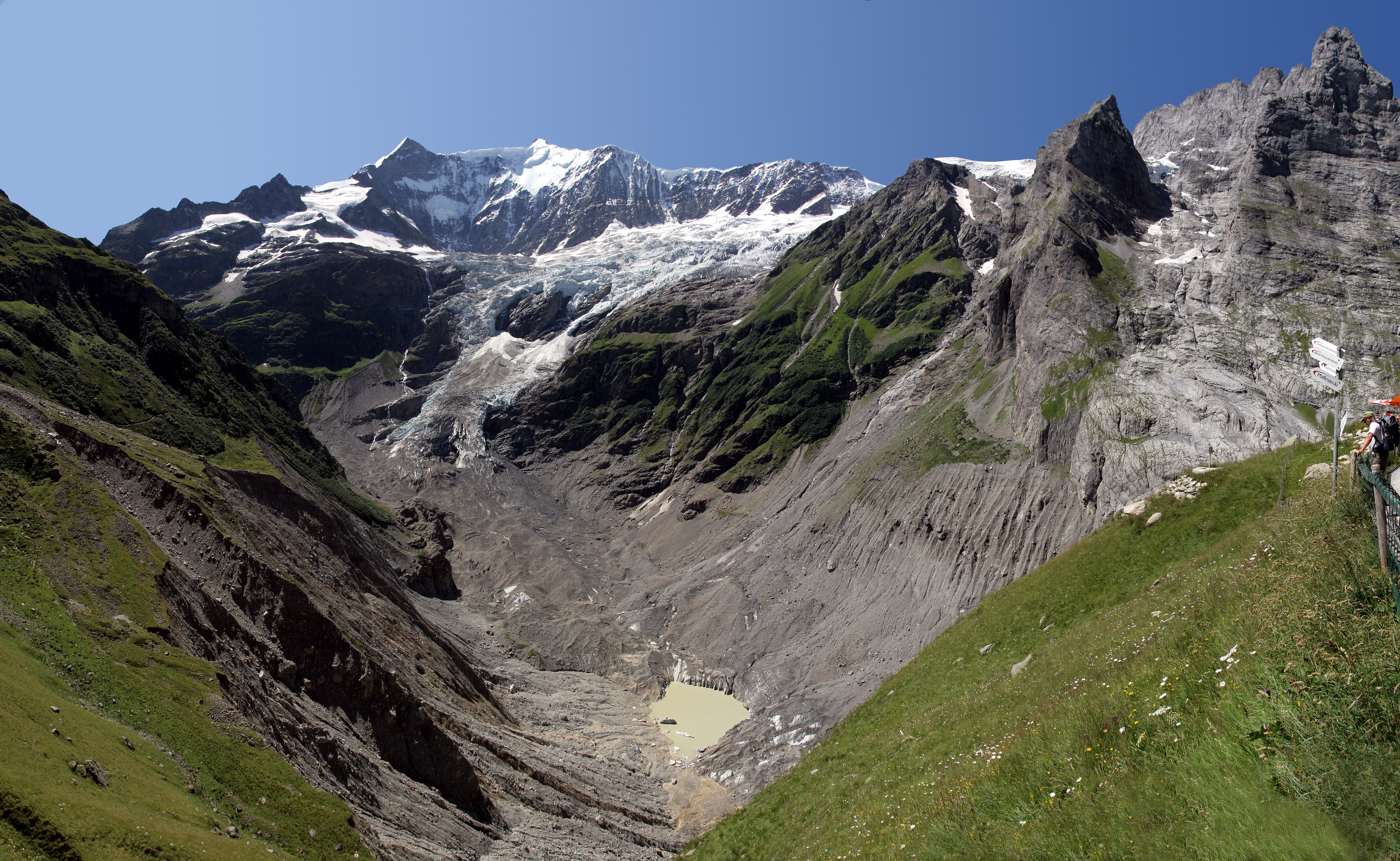 Above the glacier lake the scrawny leftovers of the former much larger Lower Grindelwald Glacier (dark, polluted part) directly below of the blue-white Ischmeer (lit.: Ice Sea) and the Fiescherhörner (4049m a.s.l., The Horns of Fiesch). On the very right a nameless peak (2251m) and the Ostegg (2709m, lit.: Eastern Corner), two peaks of the Hörnli, the eastern extension of the Eiger. View from Bäregg (1772m, lit.: Bear's Corner).